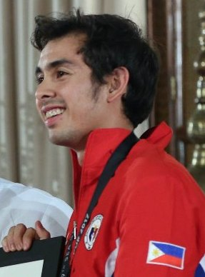 President Rodrigo Roa Duterte confers the presidential citation on Niko Huelgas, triathlon gold medalists in the 29th Southeast Asian Games (SEAG), during a ceremony in Malacañan Palace on September 13, 2017. All SEAG medalists also receive cash incentives from the Philippine Sports Commission (PSC) and the Siklab Atleta Pilipinas. Also in the photo is PSC Commissioner William Ramirez. KARL NORMAN ALONZO/PRESIDENTIAL PHOTO